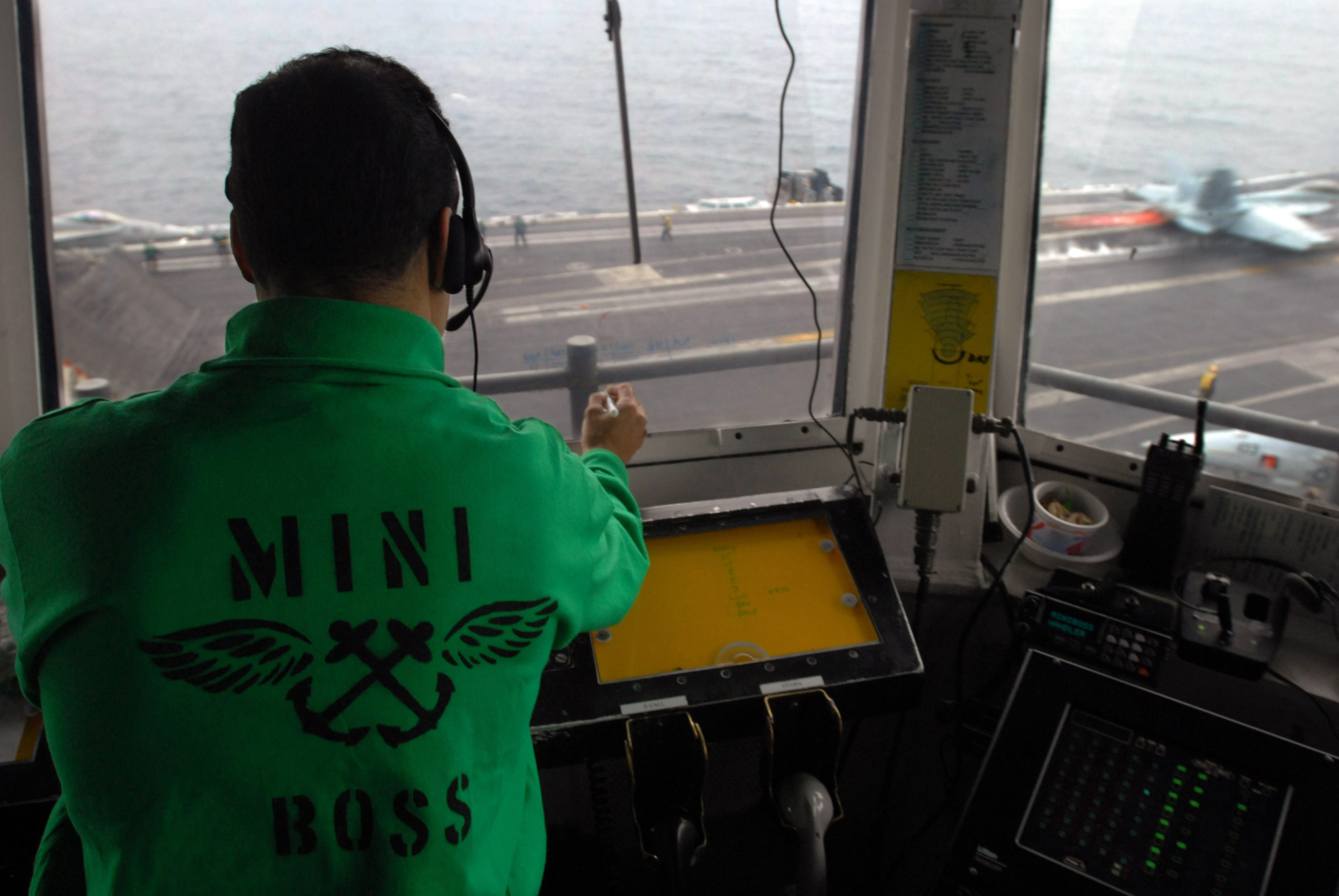 Mini Boss (Assistant Air Officer), Cmdr. Rey Molina, stands watch in primary flight control during the launch of a F/A-18C Hornet aboard USS Ronald Reagan (CVN 76).